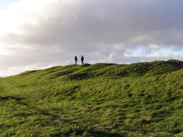 West Kennett Long Barrow earthworks The earthworks of the West Kennet Long Barrow are around 100 metres long, making it one of the longest neolithic burial mounds in Britain. Its excavated stone chambers at the eastern end usually get the most attention (see various other photographs). The long mound bears the scars of 5000 years of existence, which show up well in this low autumnal sunlight.